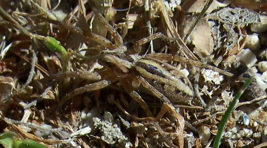 Schizocosa mccooki Made in San Jose, California. Identified by Jeff Hollenbeck and Eric R. Eaton.